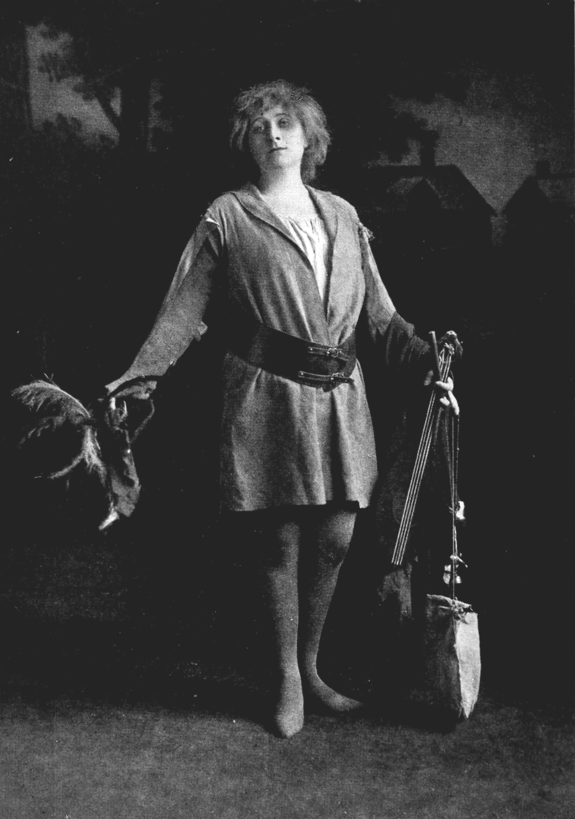 Mary Garden as Jean in Le jongleur de Notre Dame - Photograph by Matzene, Chicago Title: The grand opera singers of to-day : an account of the leading operatic stars who have sung during recent years, together with a sketch of the chief operatic enterprises Year: 1912 (1910s) Authors: Lahee, Henry Charles, 1856-1953 Subjects: Singers Opera Publisher: Boston : L. C. Page Text Appearing Before Image: RARY Brigham Young University Call 78D-.92No. H3g - ■ f p THE GRAND OPERA SINGERSOF TO-DAY THE MUSIC LOVERS* SERIES The following, each, $2.00Great Composers and Their Work By Louis C. Elson Famous Singers of To-Day and Yesterday By Henry C. Lahee Famous Violinists of To-Day and Yesterday By Henry C. Lahee Famous Pianists of To-Day and Yesterday By Henry C. Lahee Grand Opera in America By Henry C. Lahee A History of Opera By Arthur Elson The National Music of America and Its Sources By Louis C. Elson The Organ and Its Masters By Henry C. Lahee Shakespeare in Music By Louis C. Elson Womans Work in Music By Arthur Elson The following, each, $2.50 Modern Composers of Europe — New Revised Edition By Arthur Elson Orchestral Instruments and Their Use —New Revised Edition By Arthur Elson The following, each, $3.00American Composers By Rupert Hughes and Arthur Elson The Grand Opera Singers of To-Day — NewRevised Edition By Henry C. Lahee THE PAGE53 Beacon Street, COMPANY Boston, Mass. Text Appearing After Image: Photograph by — matzene — ChicagoMARY GARDEN AS JEAN IN LE JONGLEUR DE NOTRE DAME .UK MeCUA